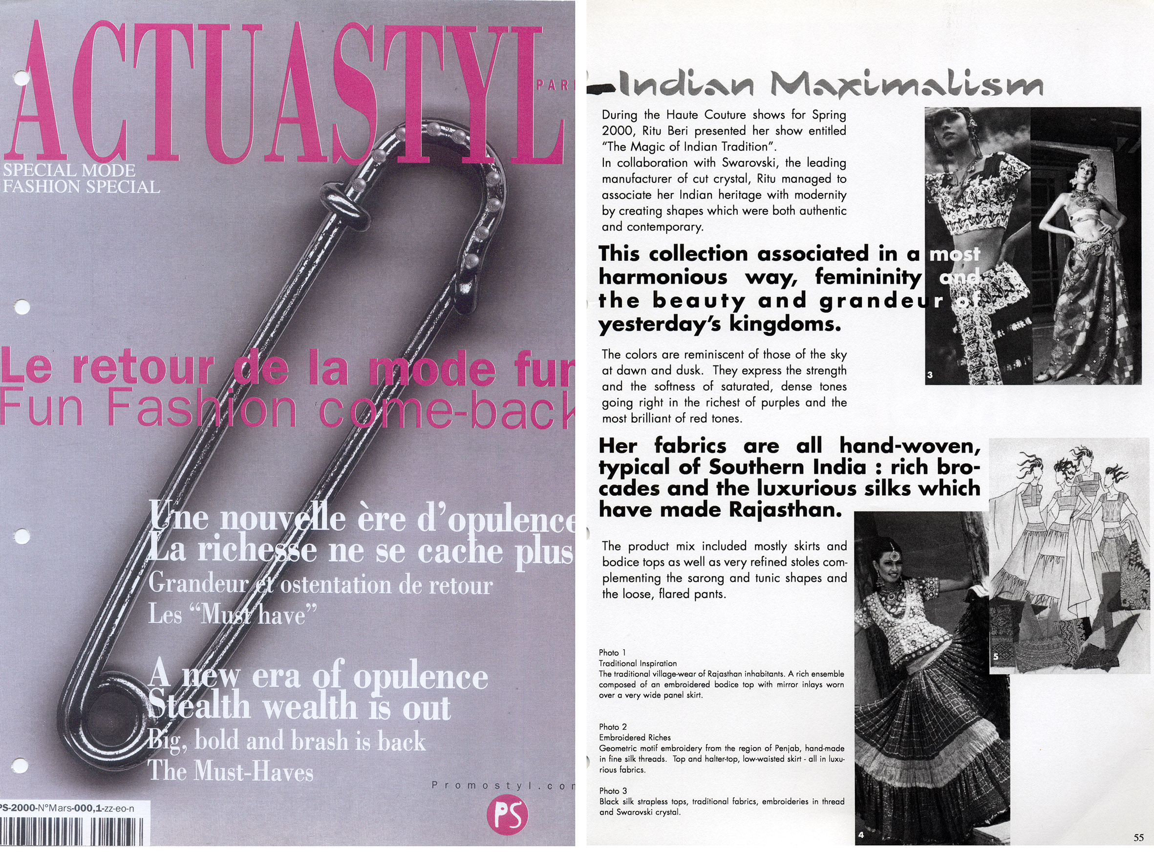 Ritu Beri featured in Promostyl